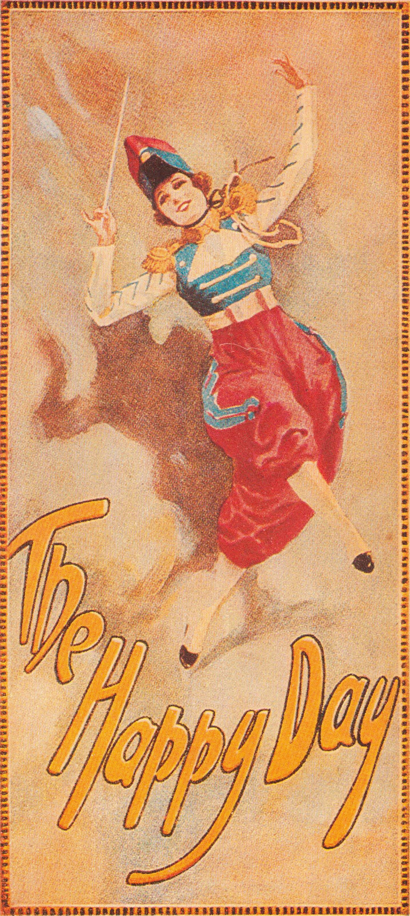 Postcard advertising The Happy Day, 1916 This is a retouched picture, which means that it has been digitally altered from its original version. Modifications: cropped. Modifications made by Opencooper. The original can be found here.